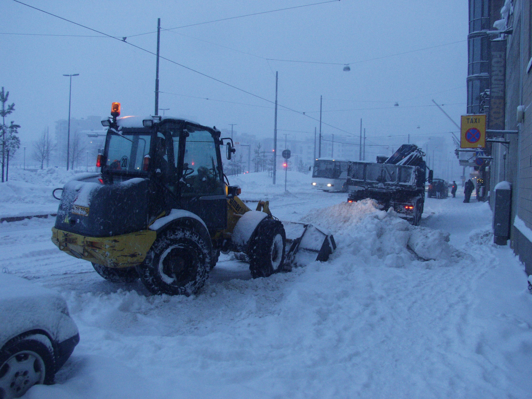 Snow removal in Helsinki in the Hietalahti neighborhood in December 2010